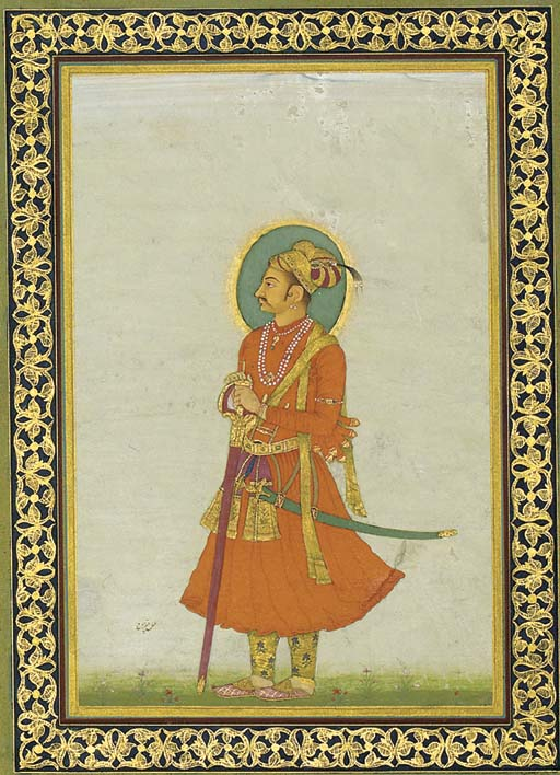 The Raja with a nimbus around his head and wearing an orange jama and with gold sword and turban and fine jewellery, attributed below in nasta'liq to Chitarman, retouched areas in ground and possibly face, mounted on card with blue margins with gold floral meander, green outer border.